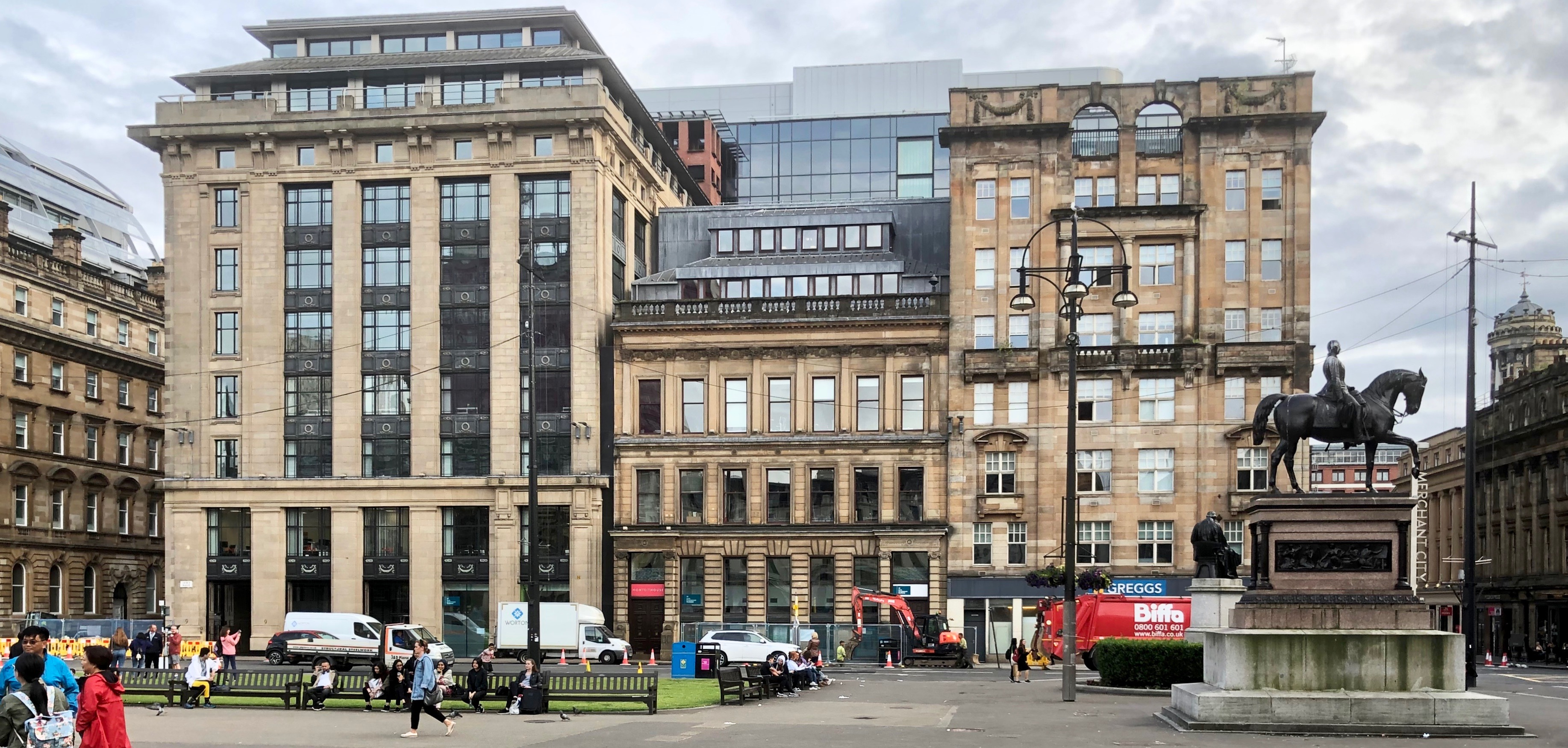 George Square, Glasgow, south side. On the corner of South Hanover Street the McLaren warehouse and repository building of 1922, designed by James Miller, has been conserved with additional storeys, and renamed Lomond House. The adjacent Monteith House at 11 George Square was built around 1863, probably to a design by John Burnet. At 13–14, Olympic House with its main entrances in Queen Street. was designed by James Miller around 1904-05. The equestrian statue is of Prince Albert.